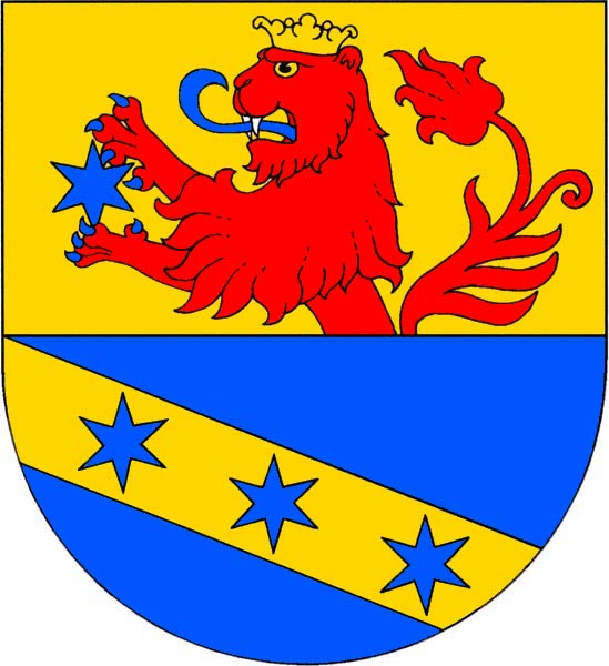 Municipal coat of arms of Josefův Důl village, Mladá Boleslav District, Czech Republic.